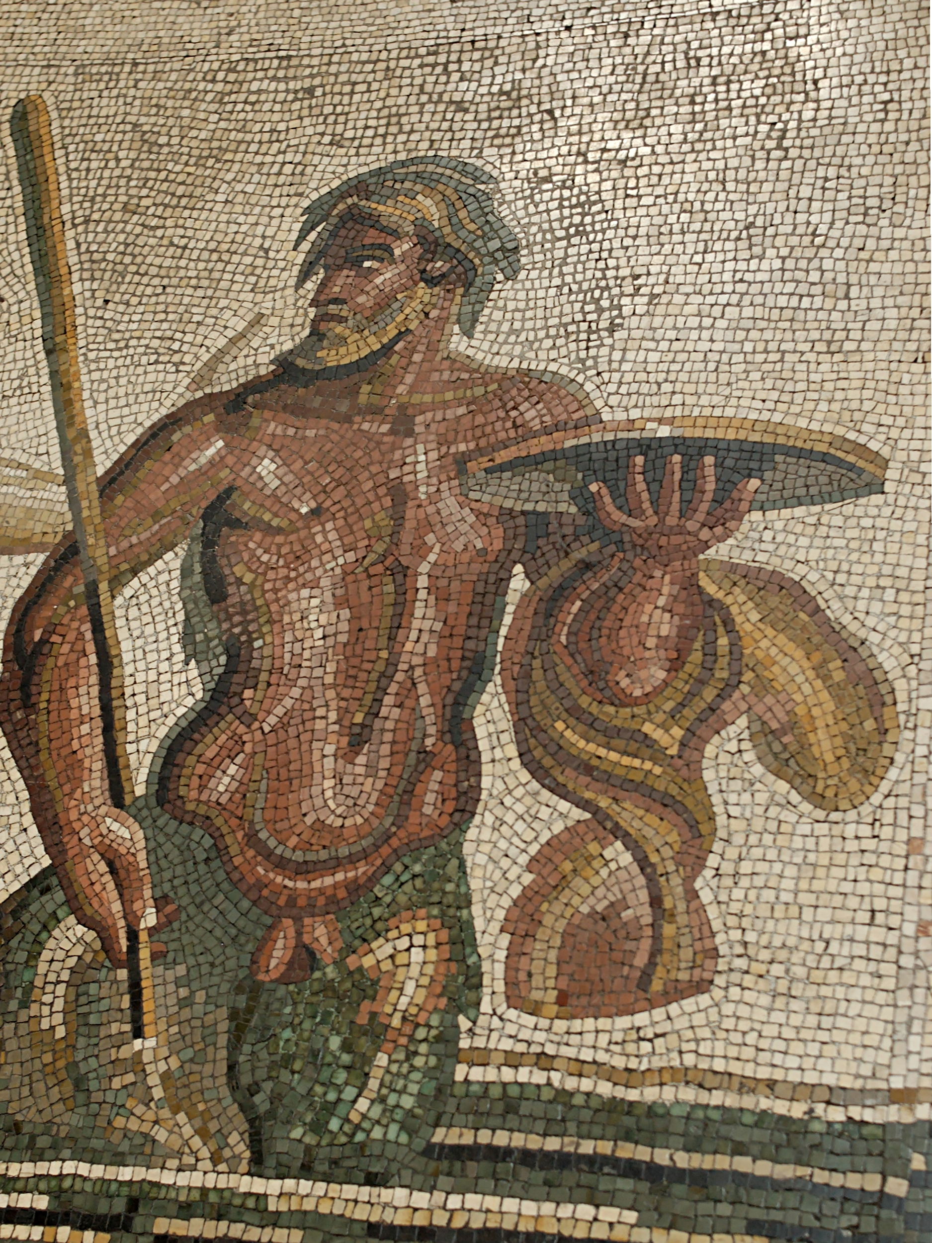 A triton, Roman mosaic. From Otricoli, Umbria.